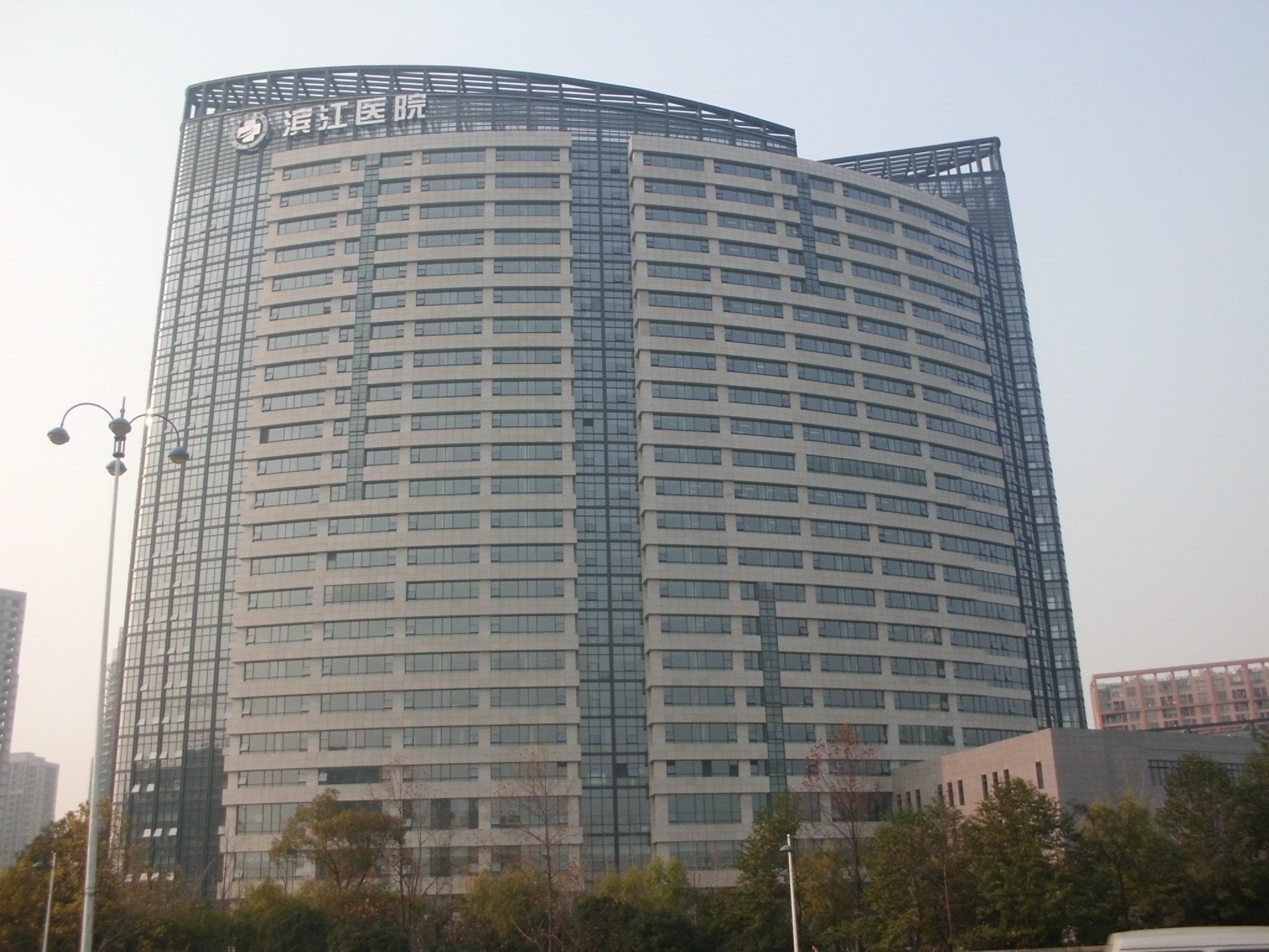 Bin Jiang Hospital